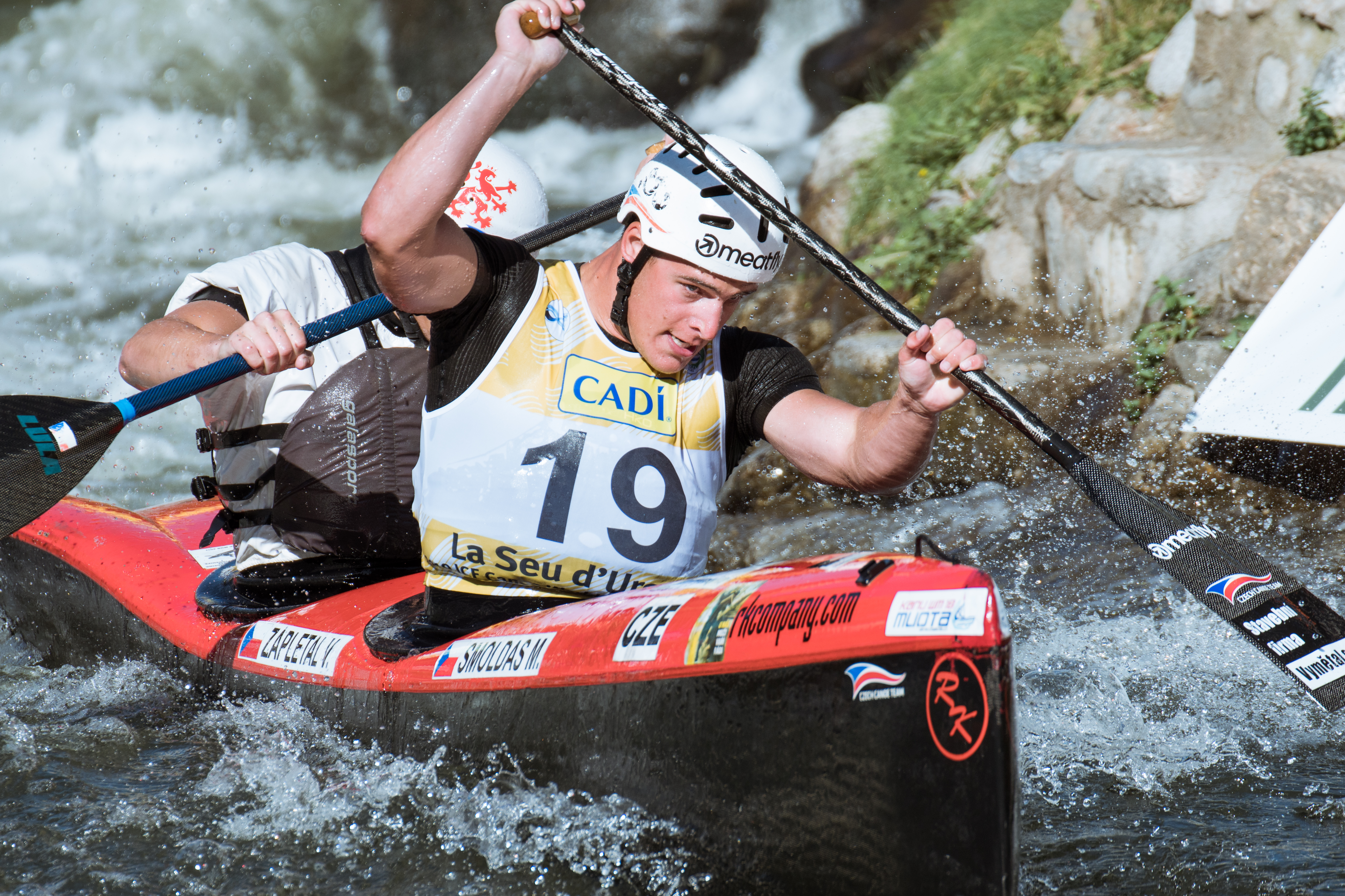 Michal Šmoldas and Vojtěch Zapletal during the 2019 Canoe Wildwater World Championships in La Seu d'Urgell, Spain.